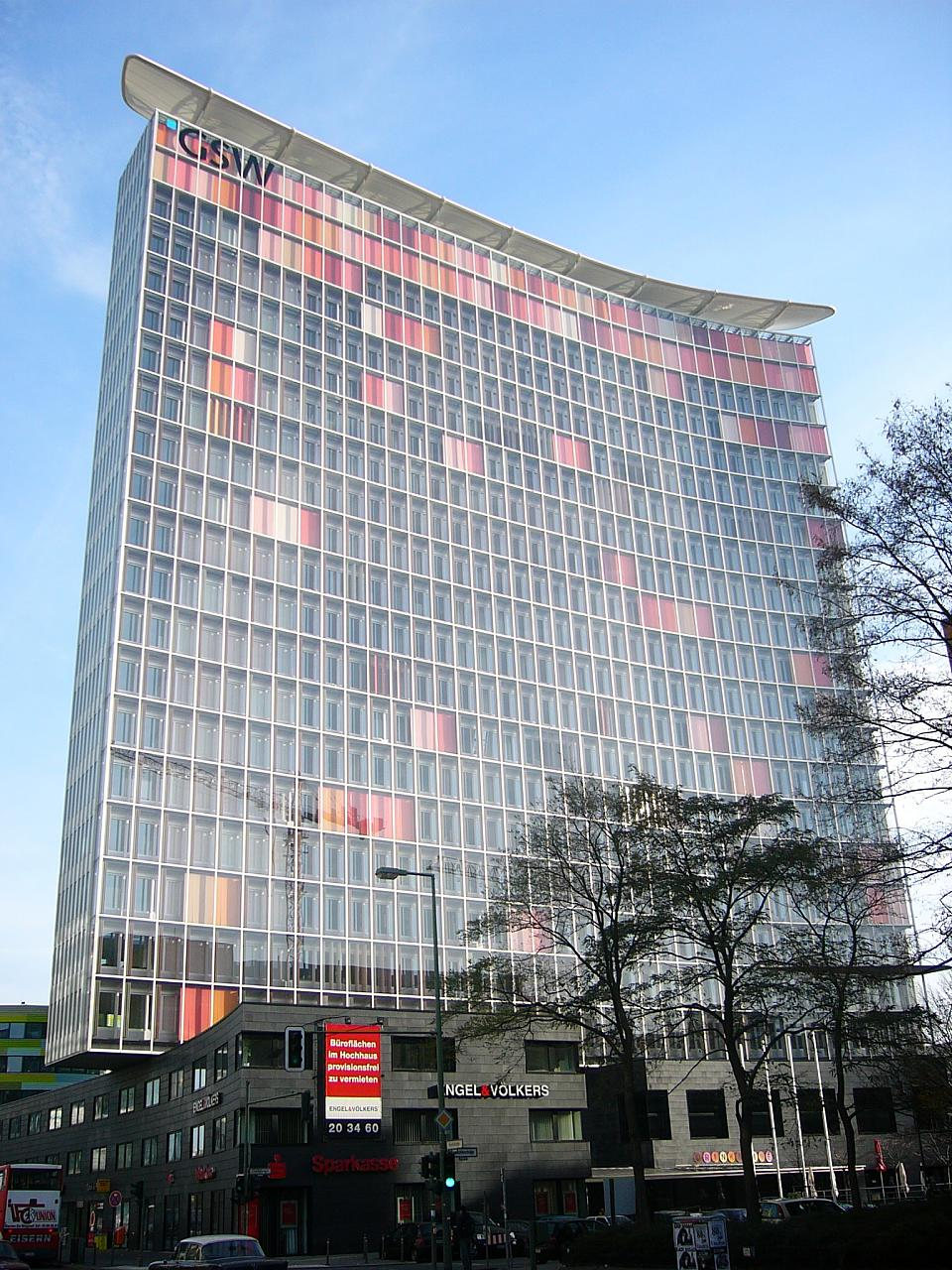 1999 built head quarters of GSW in Berlin-Kreuzberg